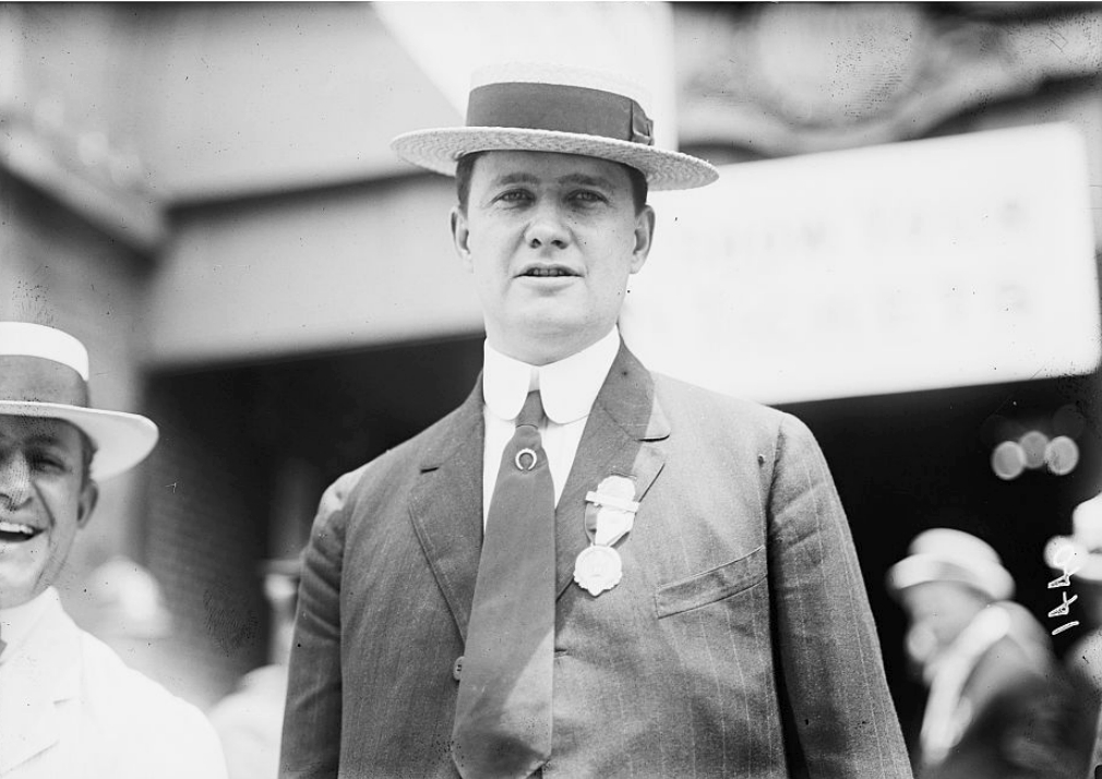 Luke Lea, US Senator from Tennessee, at the 1912 Democratic Convention